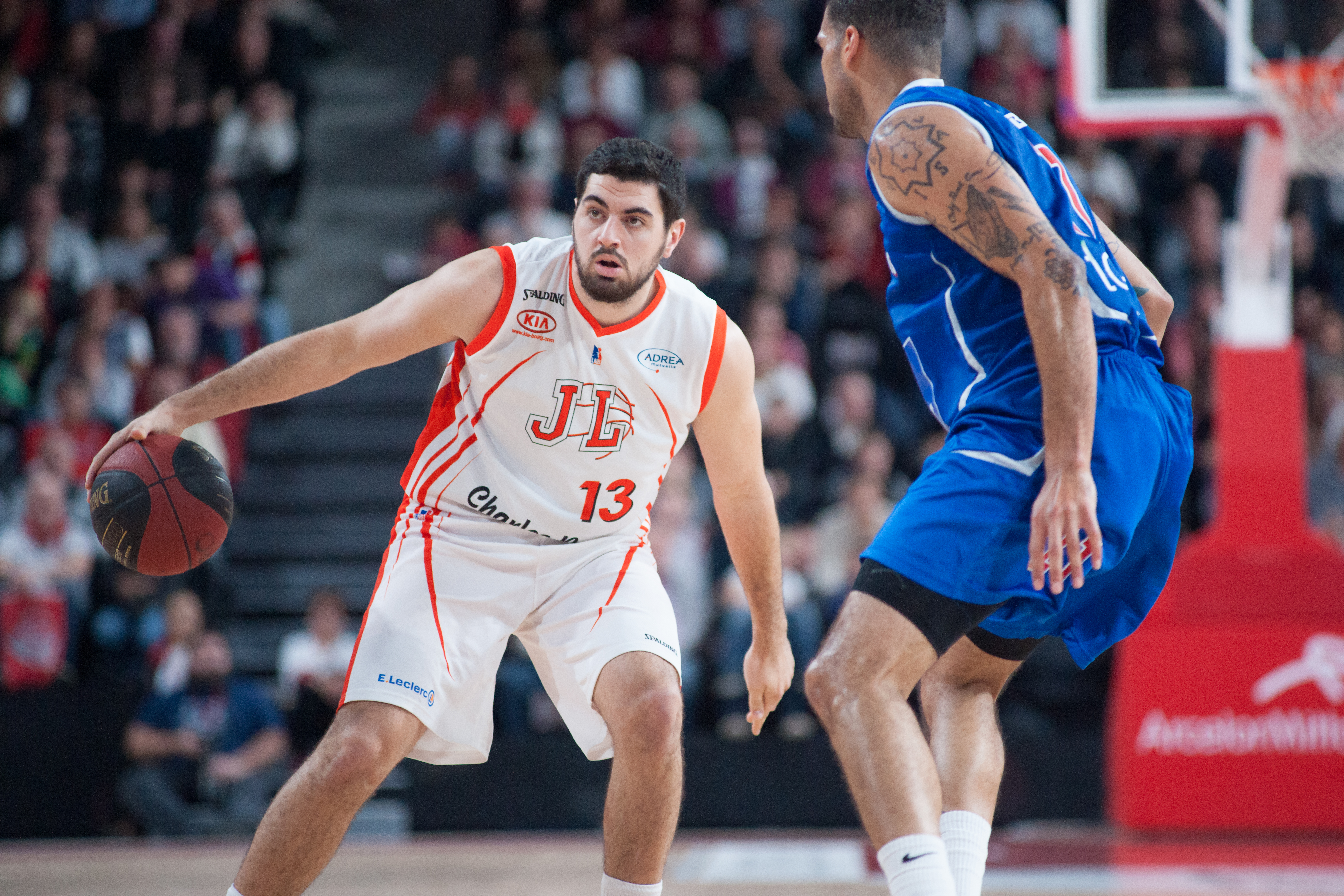 Bourg-en-Bresse vs. Paris-Levallois, 15th November 2014